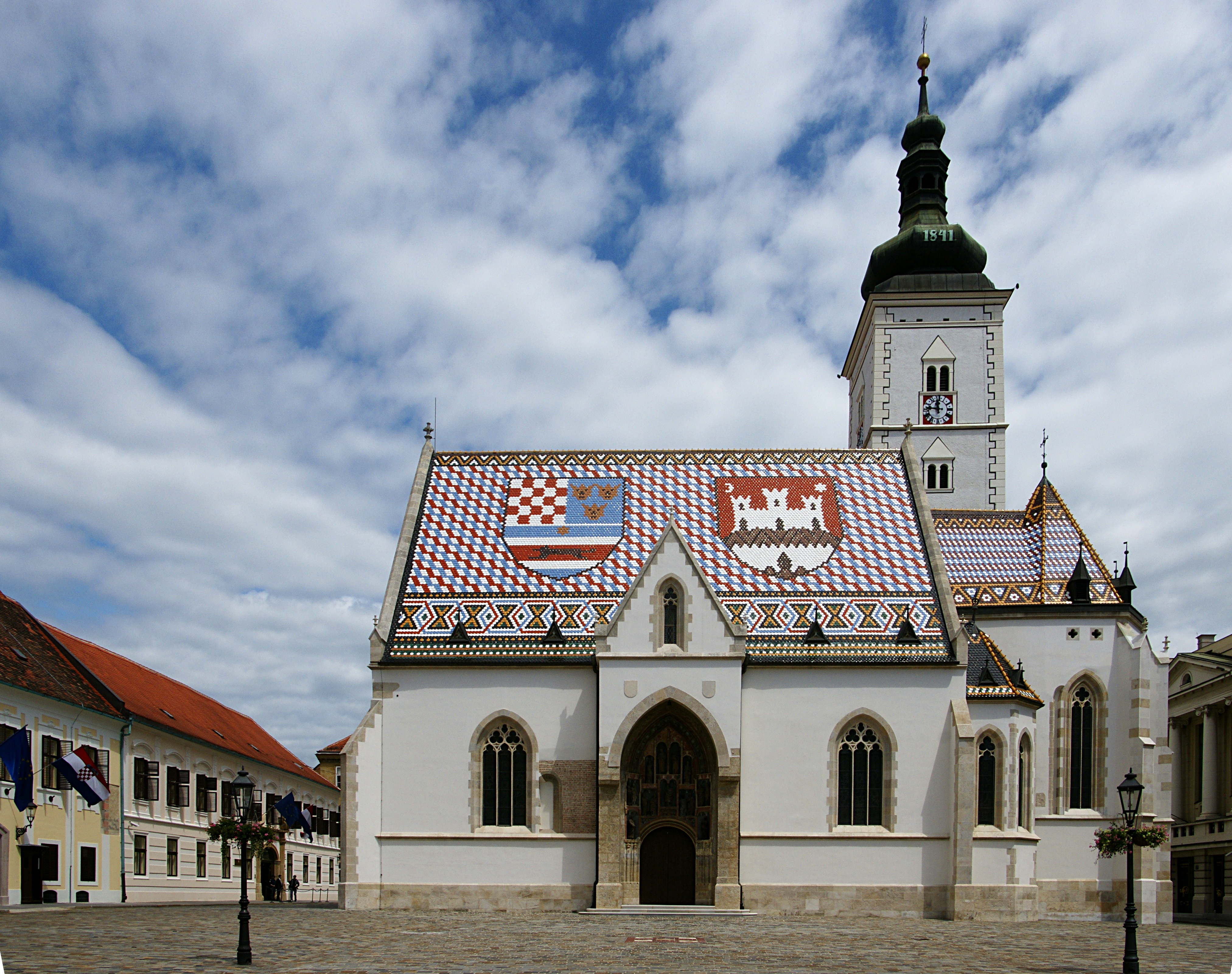 St. Mark's Church, Zagreb, Croatia